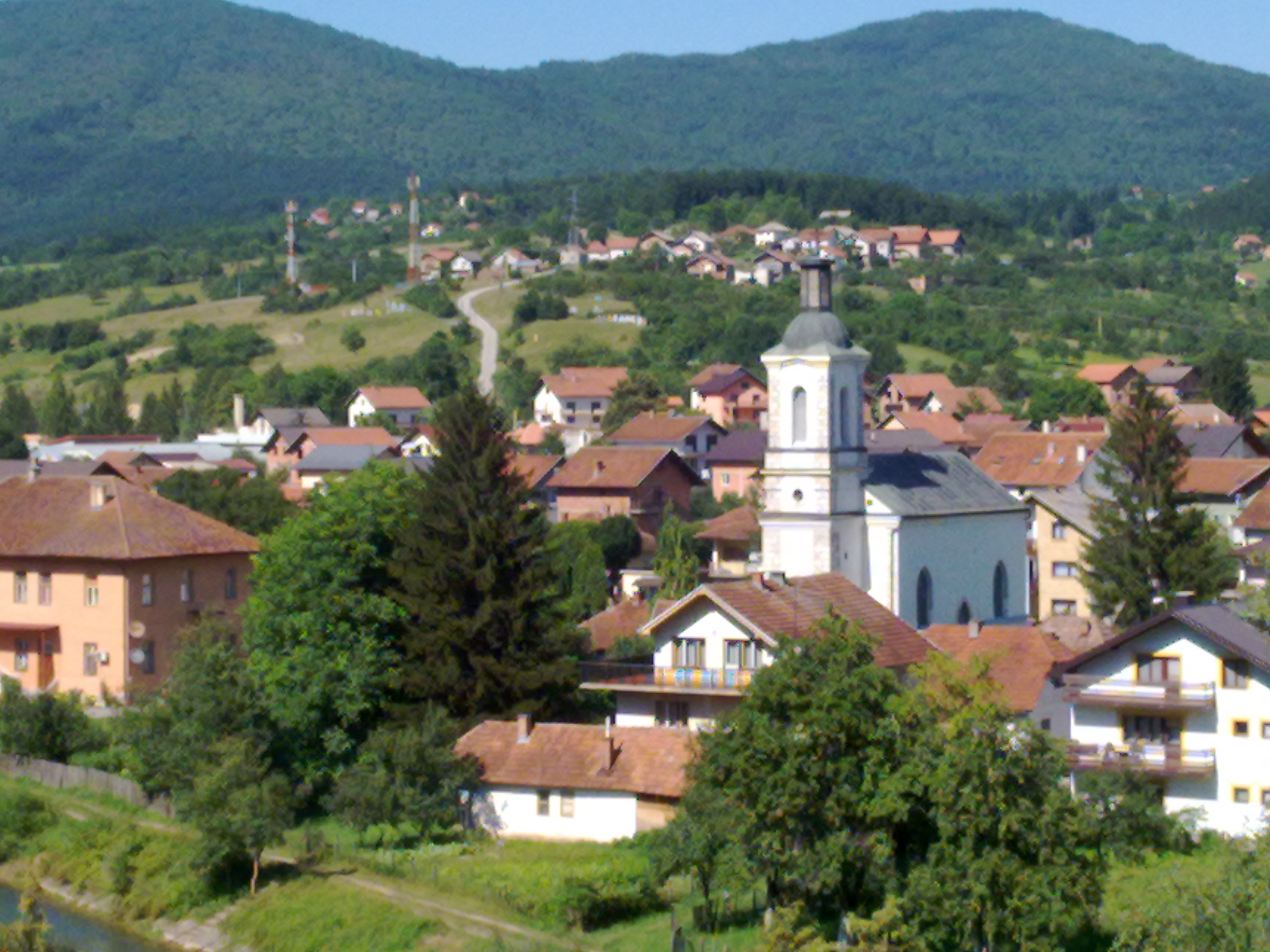 Rogatica, Republic of Srpska